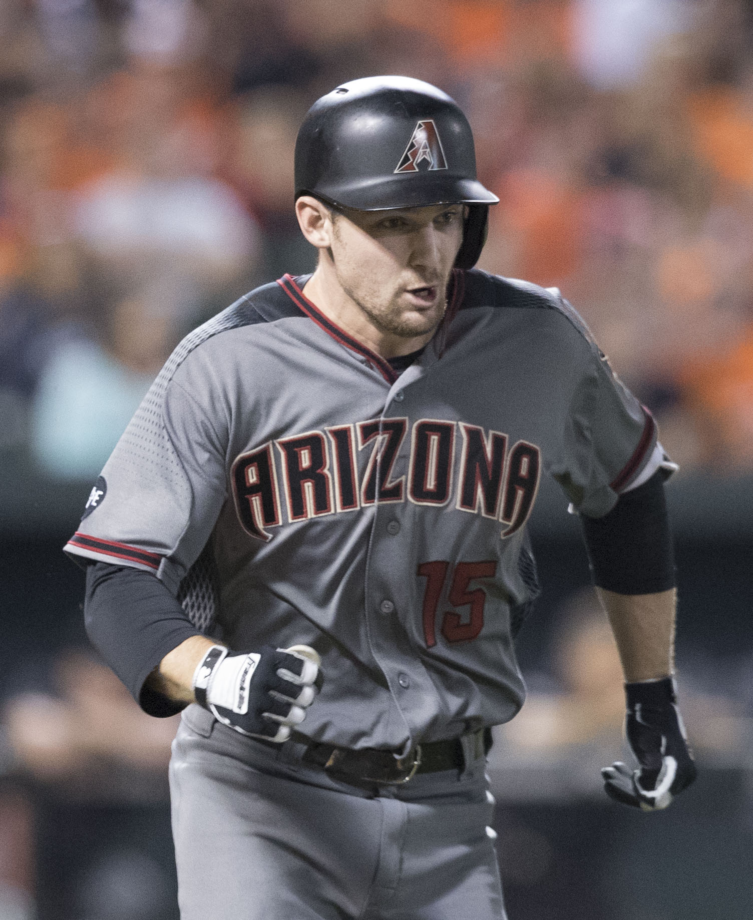 Diamondbacks at Orioles 9/24/16